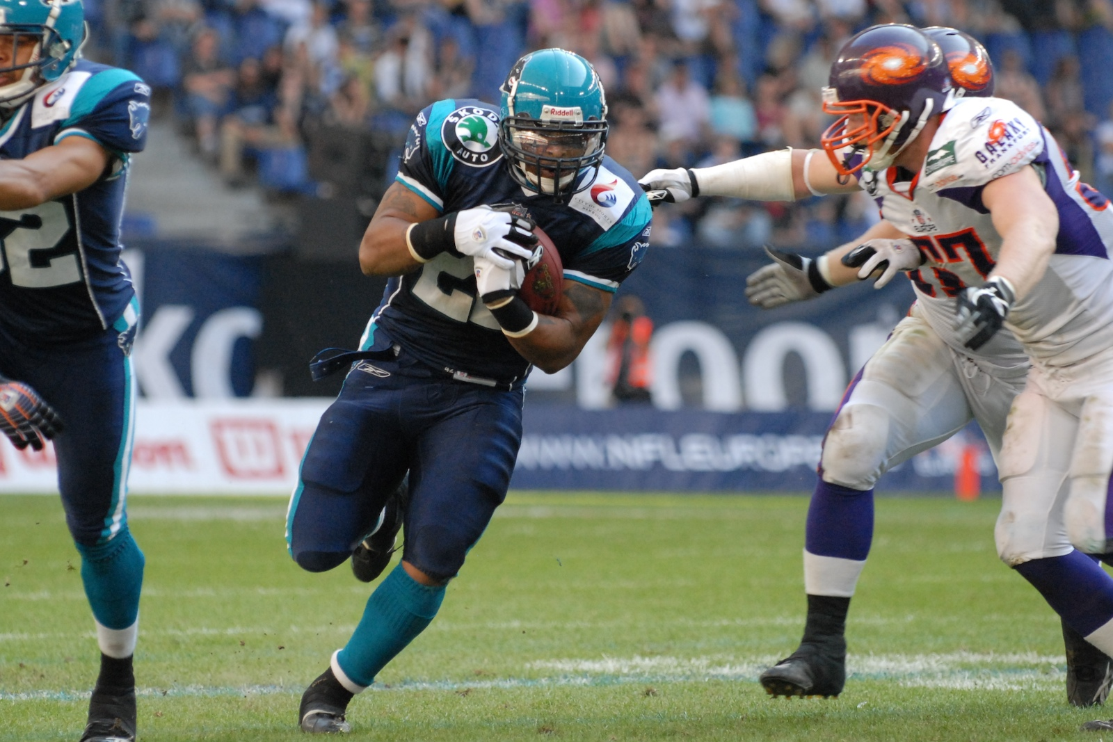 NFL Europa game Frankfurt Galaxy @ Hamburg Sea Devils